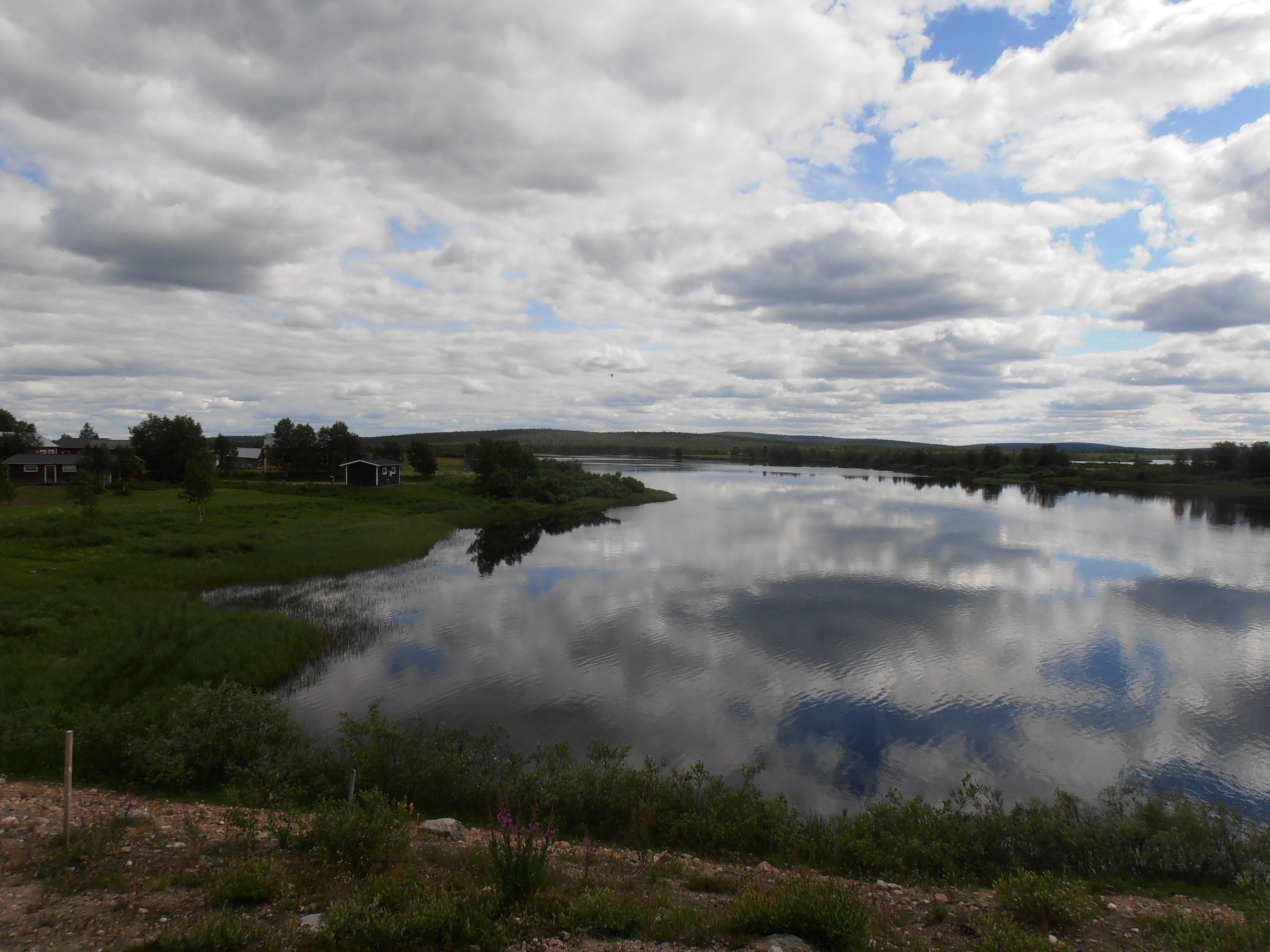 The Lainio river seen from Nedre Soppero in Kiruna municipality